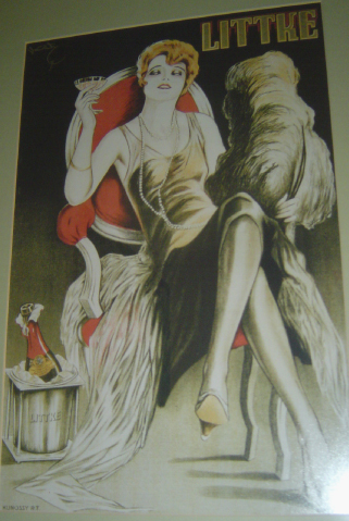 Poster of Littke, Pécs, Hungary